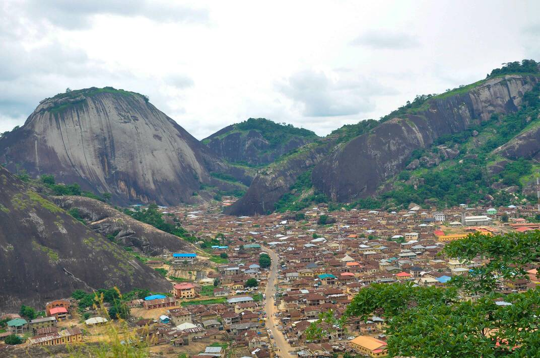 This is Idanre Hill, or Oke Idanre, located in Idanre town in Ondo State of southwestern Nigeria